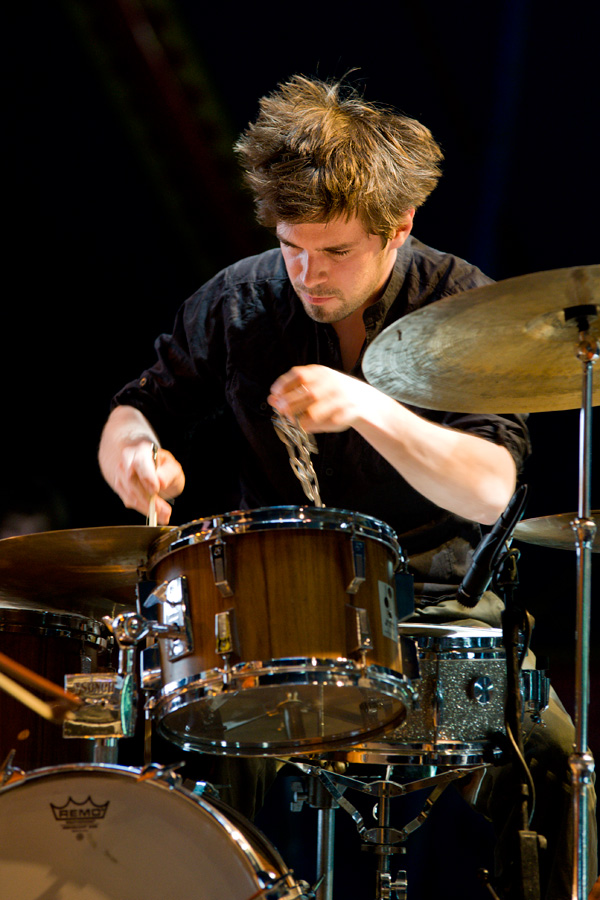 Jonas Burgwinkel at moers festival 2012